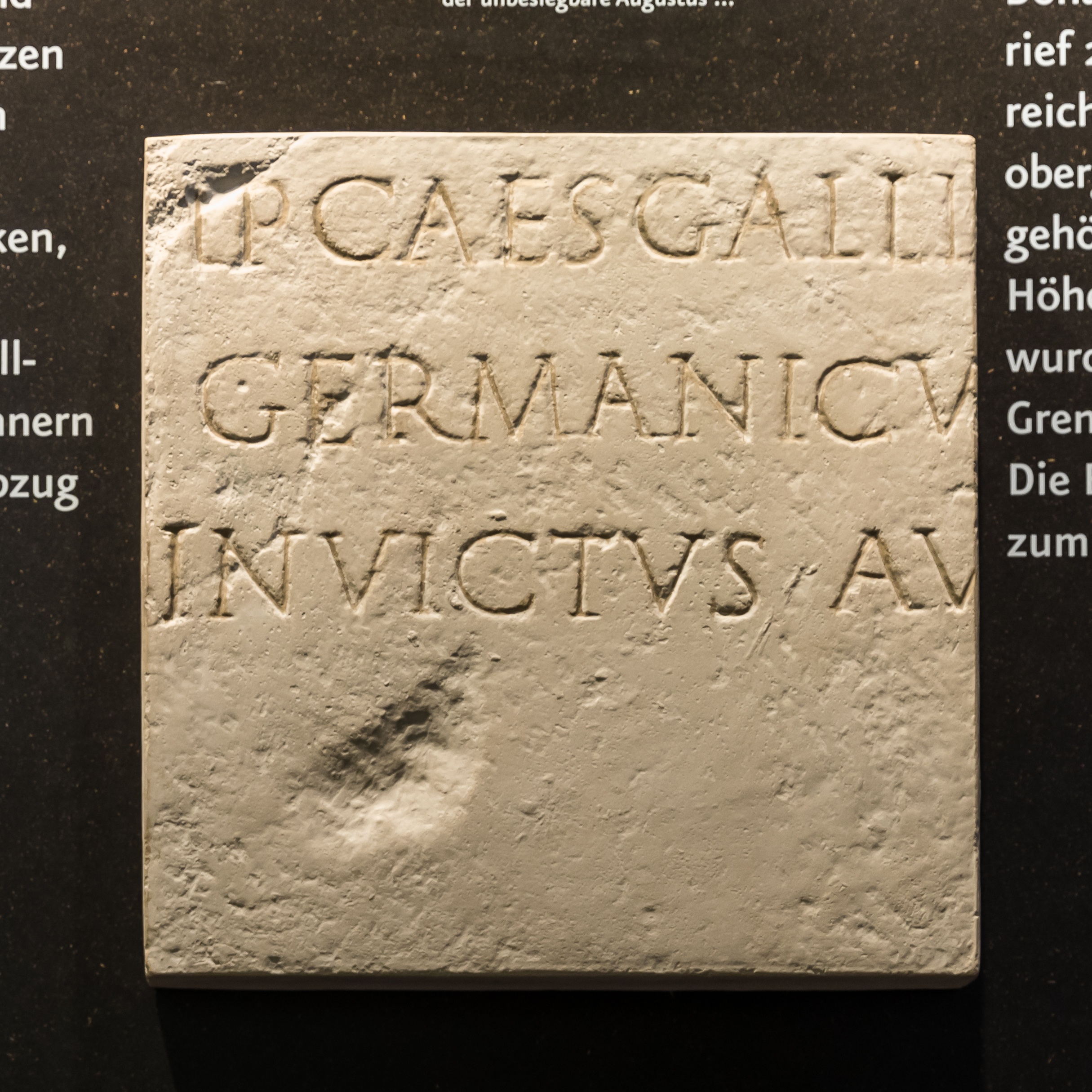 Alamannenmuseum Ellwangen - Abguss der Inschrift des römischen Kaisers Gallienus aus Herbrechtingen-Hausen ob Lontal beim Thema Übergang von den Römern zu den Alamannen in der Mitte des 3. Jahrhunderts.